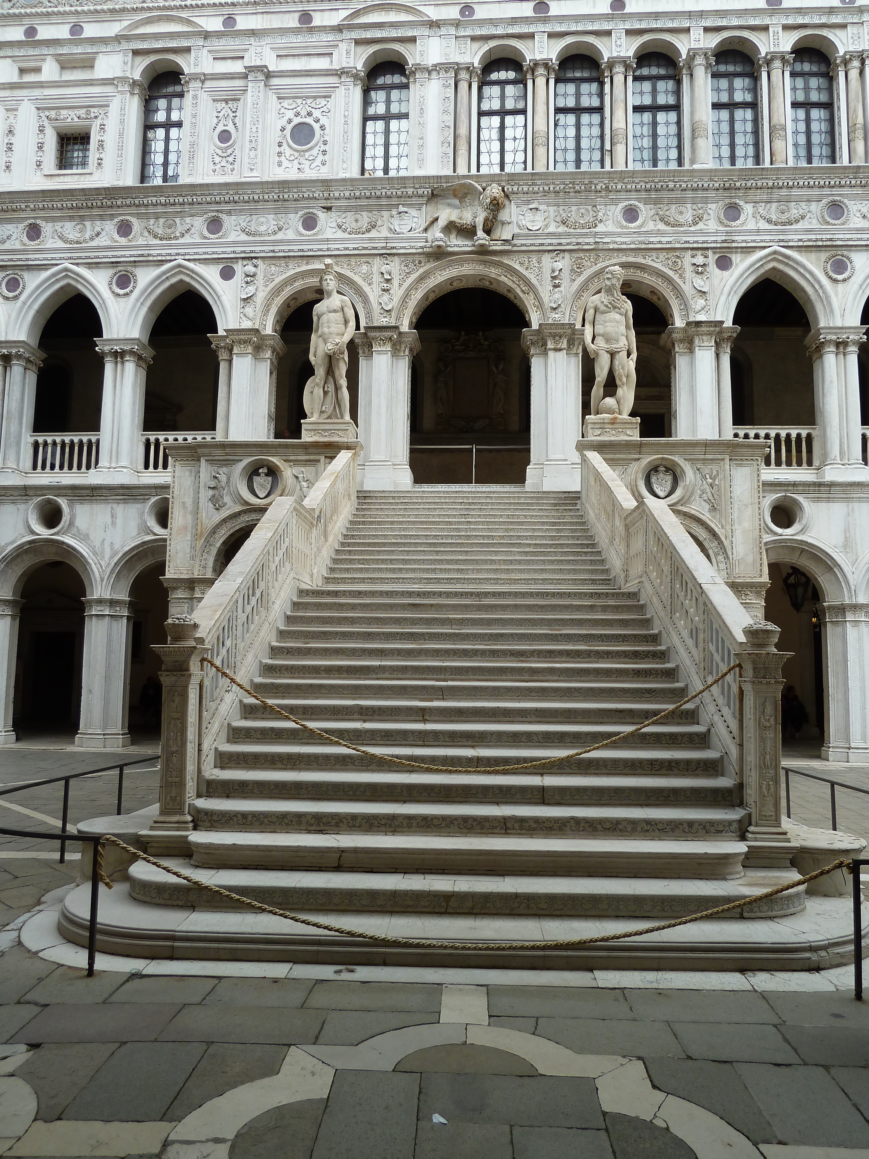 Courtyard of the Doge's Palace (Venice) - Scala dei giganti